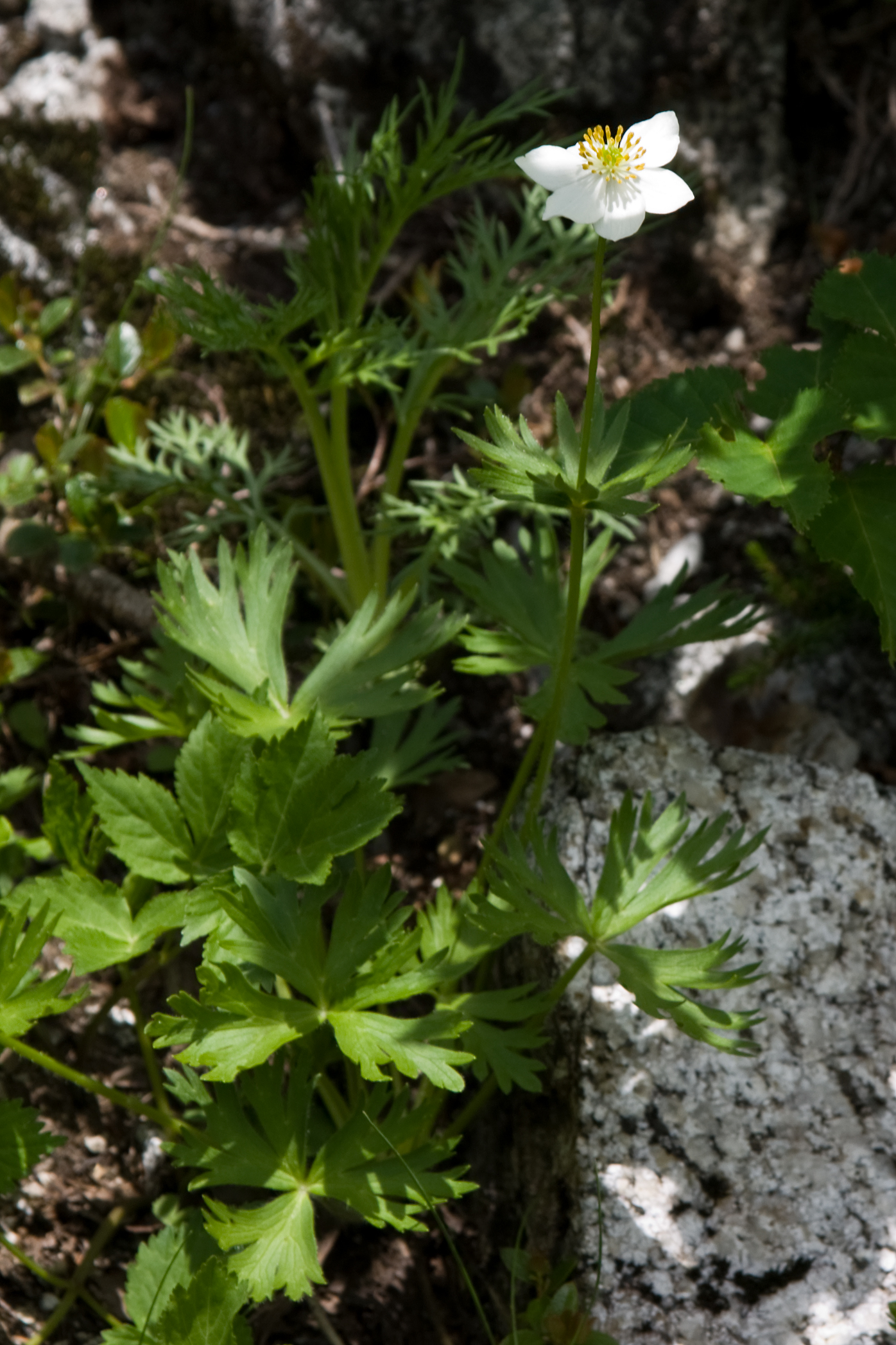 Anemone narcissiflora